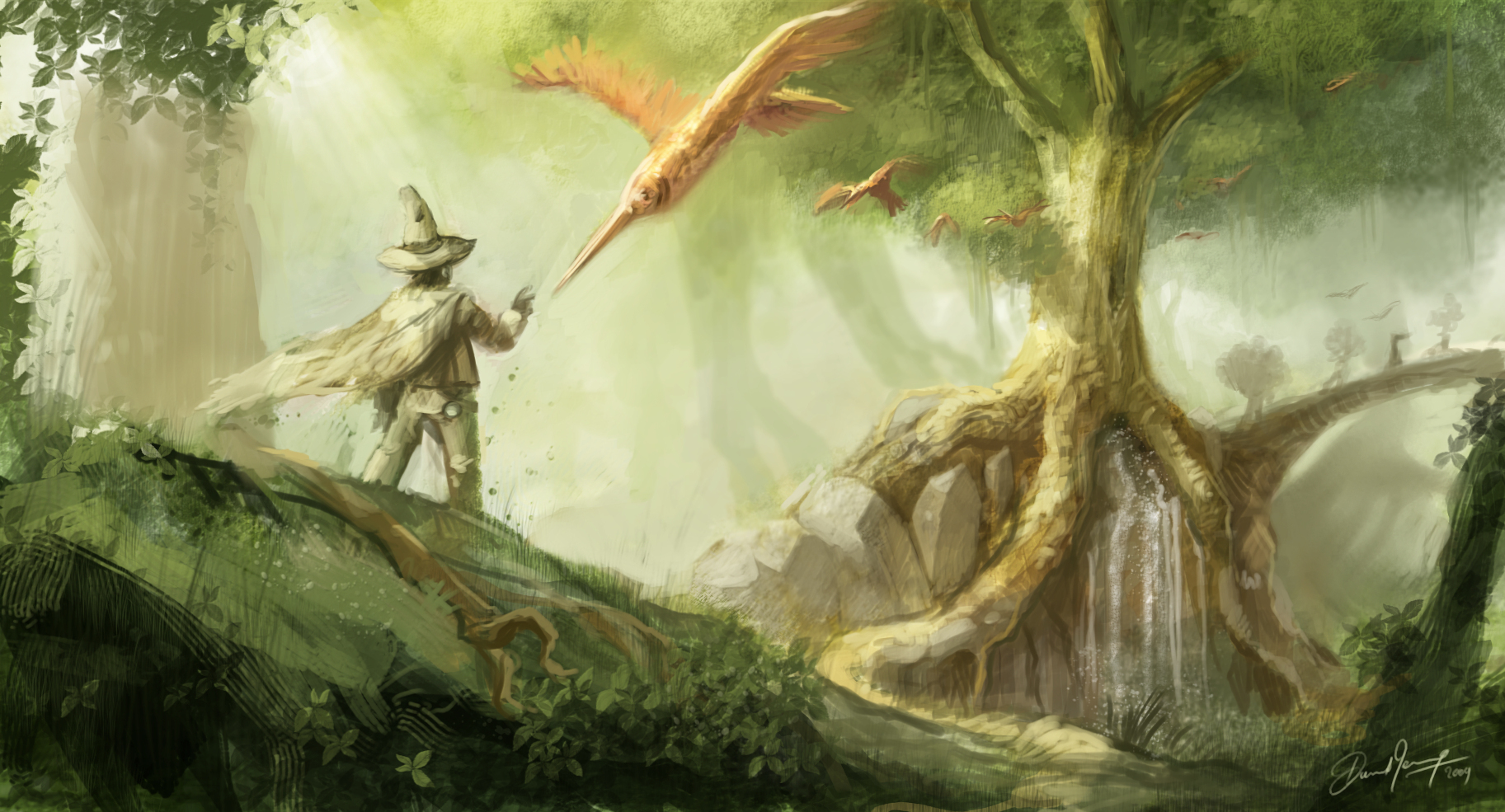 Artwork from the Open Movie Workshop 'Chaos&Evolutions'. A DVD training about digital painting, concept art, Gimp-painter 2.6 and Mypaint 0.7 .